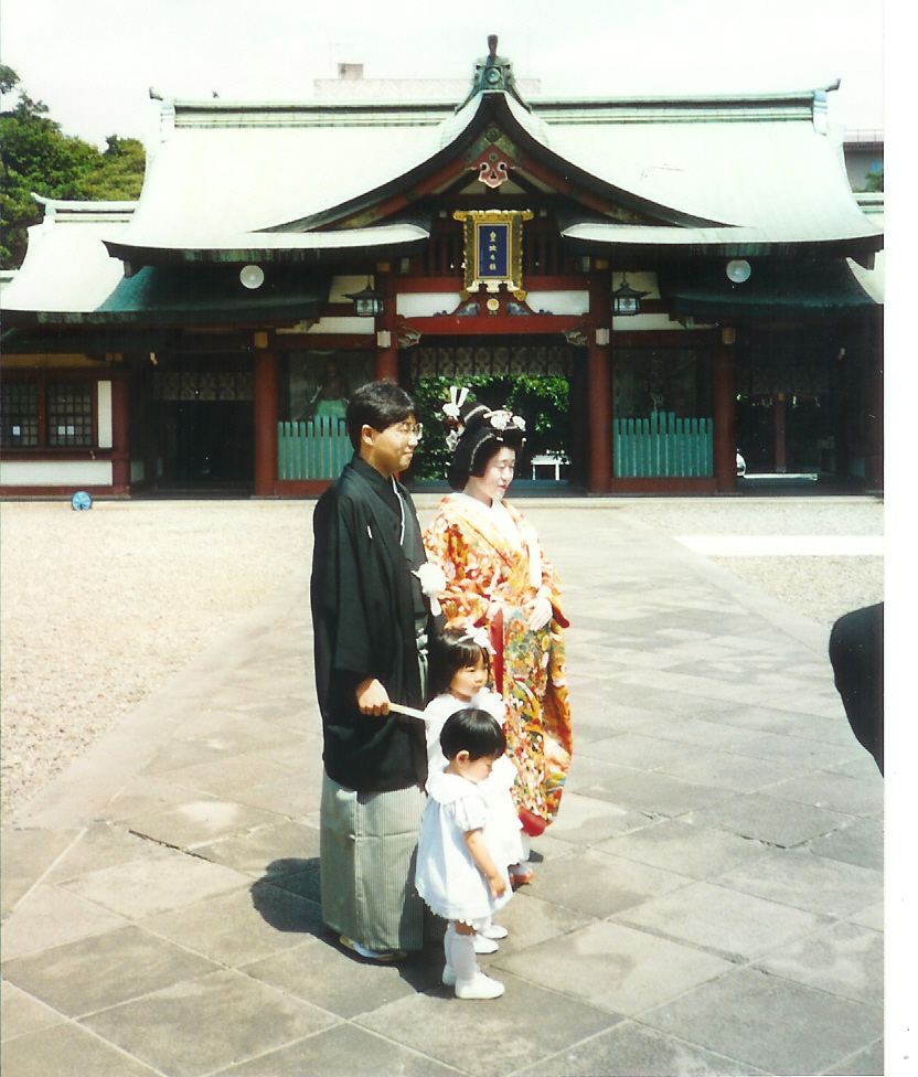 Wedding at a shrine in Tokyo